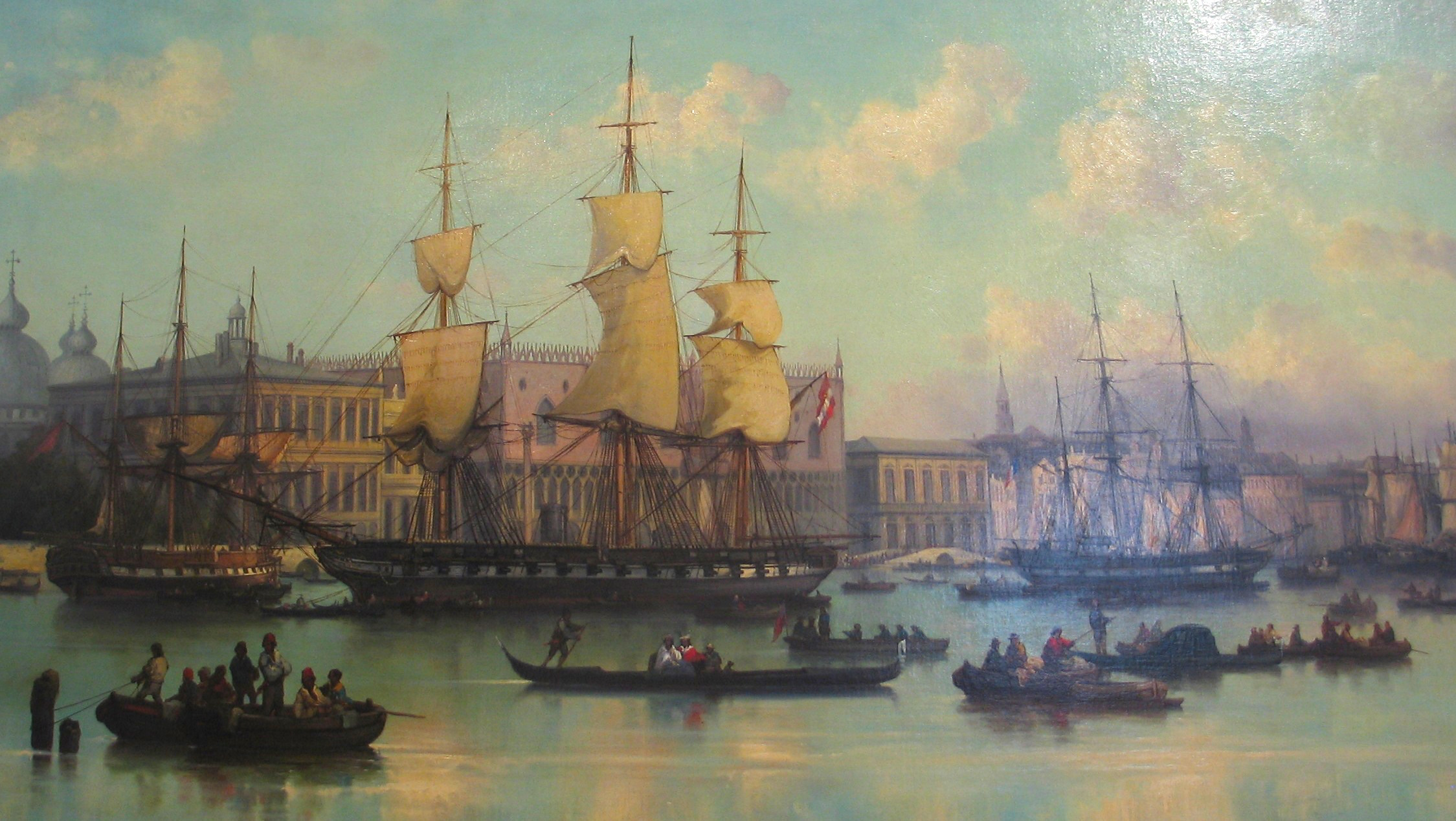 SMS Frigate Novara in Venice after 1862. Note the funnel between Fore- and Mainmast.